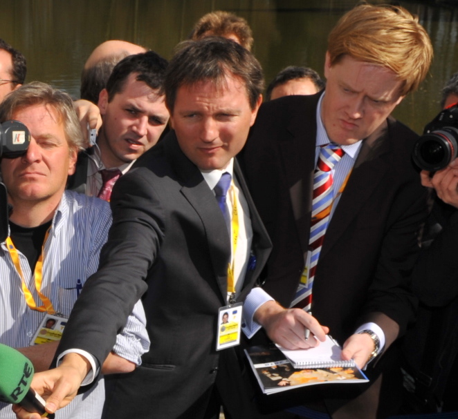 Enda Kenny being interviewed by media at an EPP summit. Tony Connelly (centre), Fionan Sheahan (right)